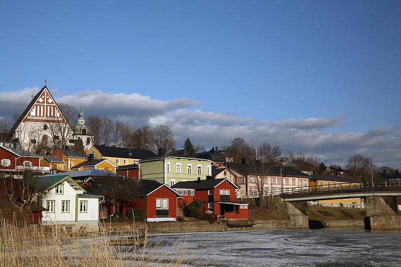 the view of old town, Porvoo.